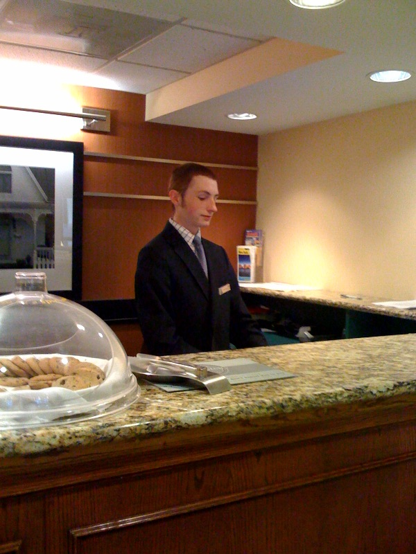 Front Desk of Hampton Inn in Rochester, NY